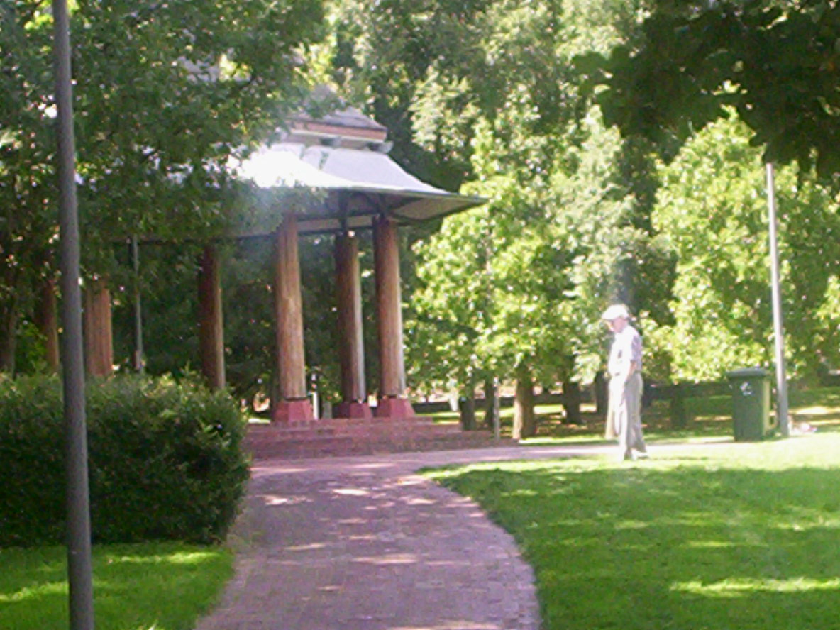 Leafy glebe park with the gazebo on the left